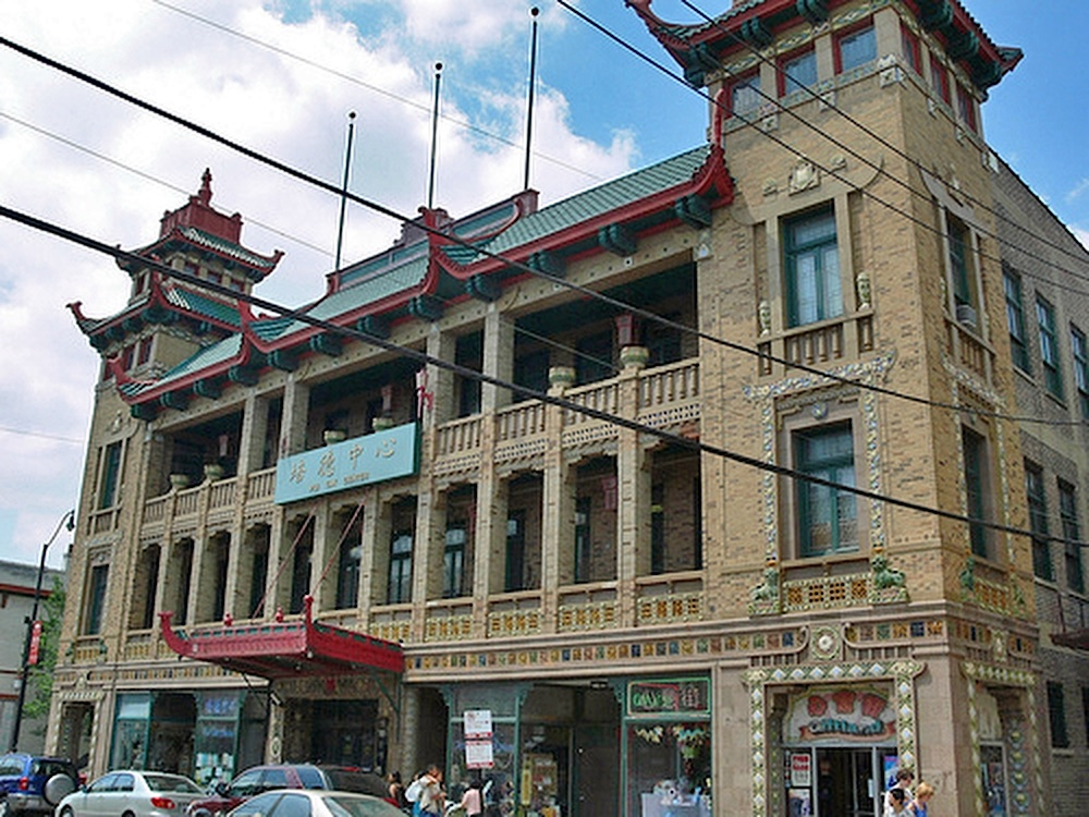 Pui Tak Center of Chicago Chinatown